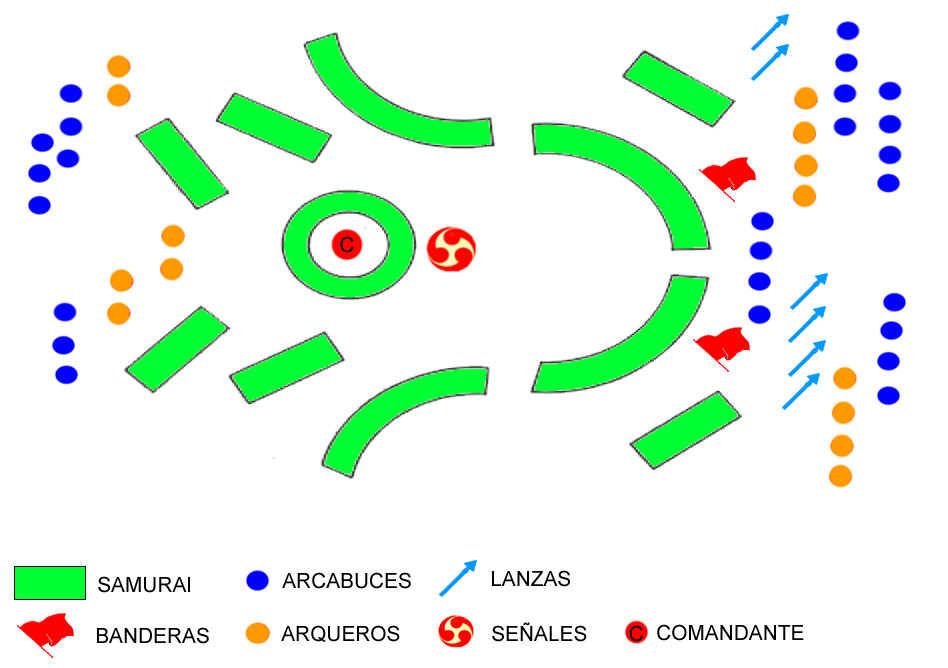 Samurai formation called "Gyorin", used during Azuchi-Momoyama period of japanese history.